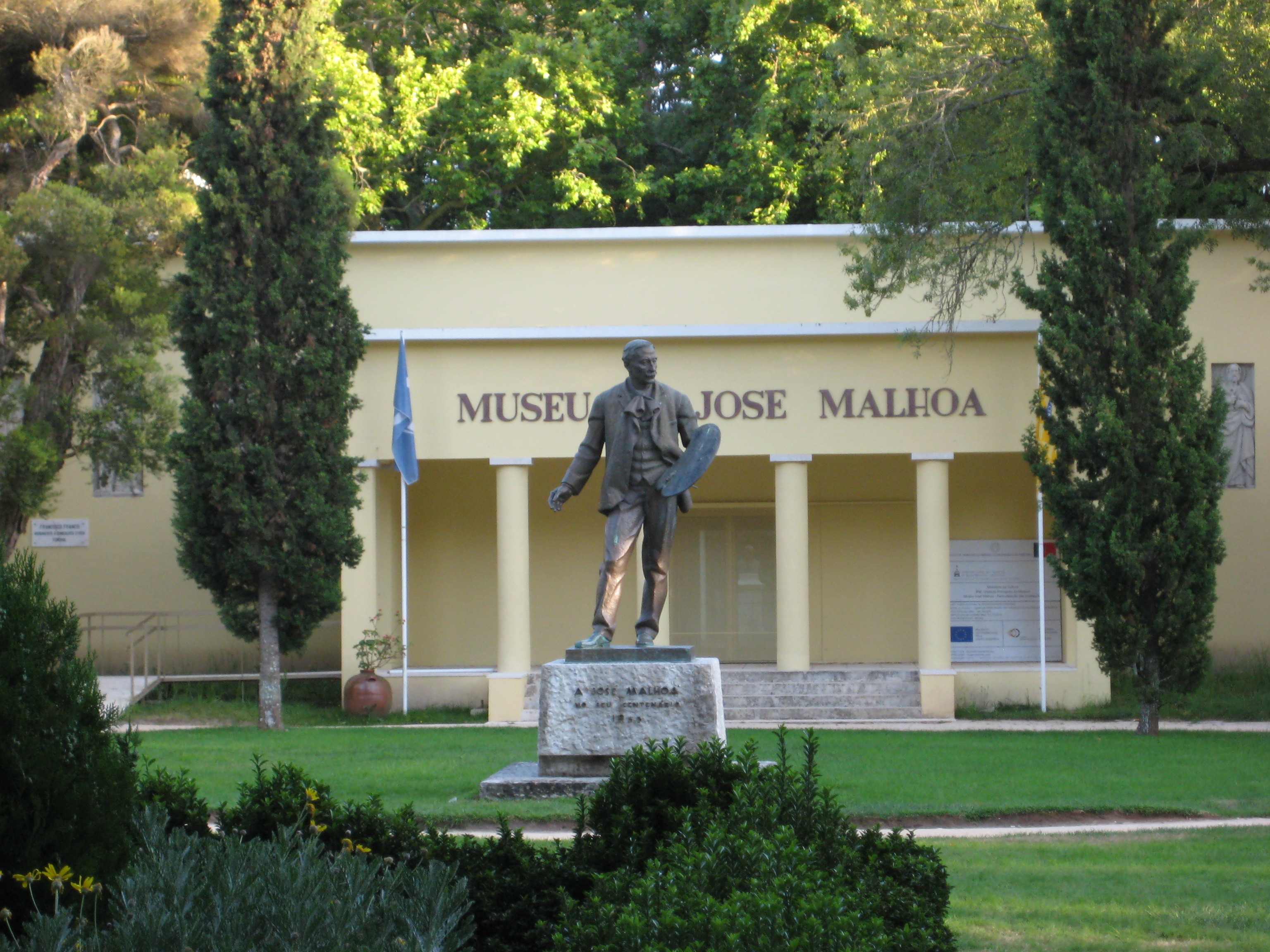 Photo of the Museu José Malhoa in Caldas da Rainha.